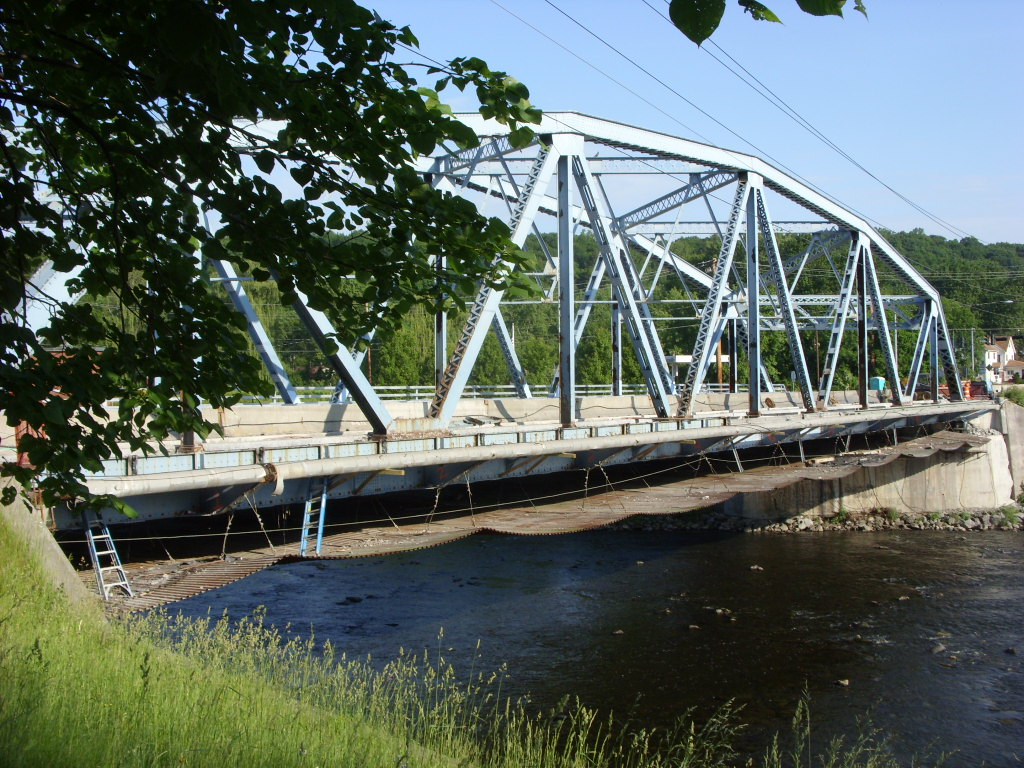 The bridge over Route 32 in Rosendale, New York, during its 2009 rehabilitation.